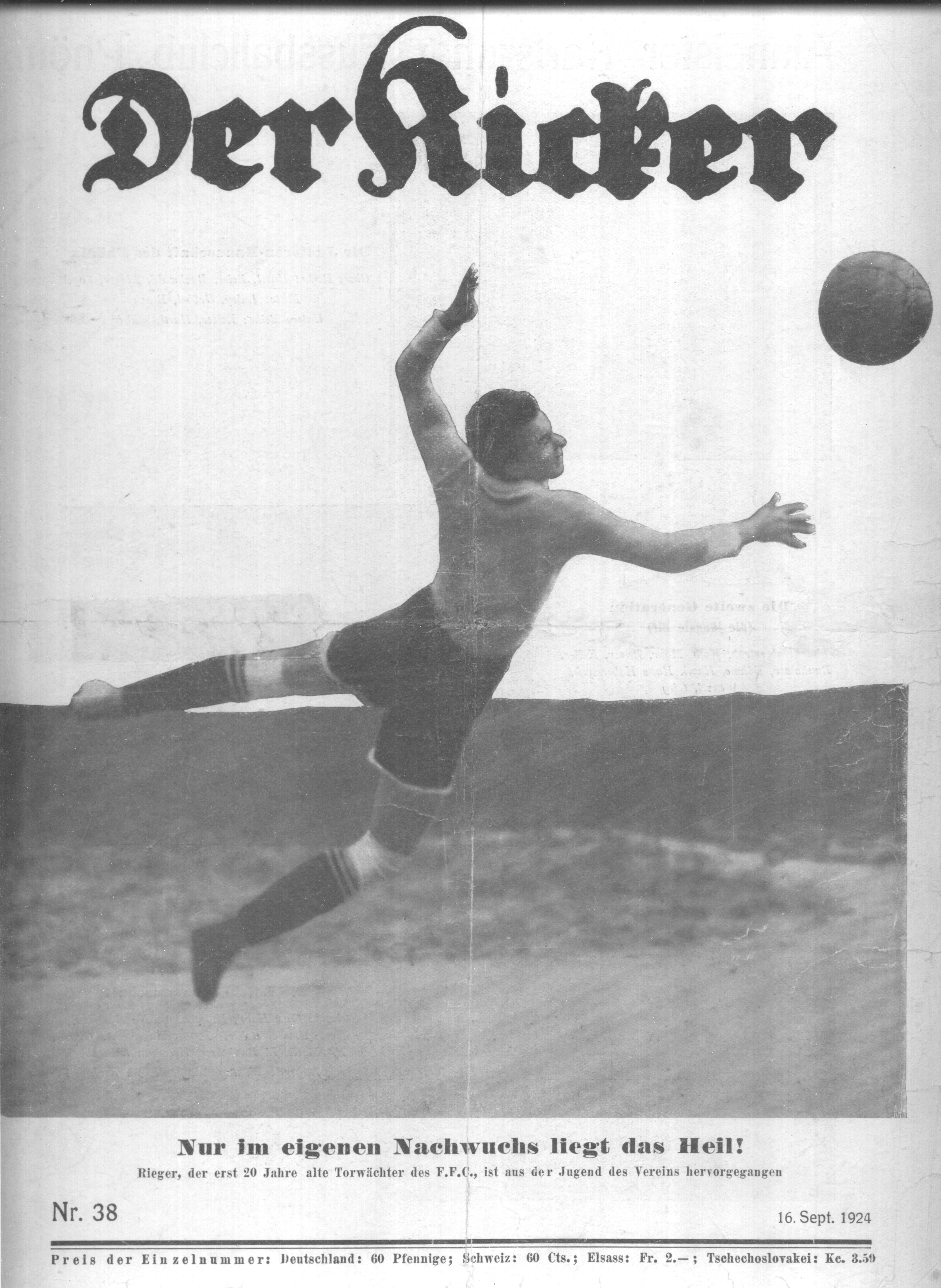 Title page of "Der Kicker" football magazine showing FC Freiburg's 20-year-old goal keeper Max Rieger. Publication date: 16.09.1924